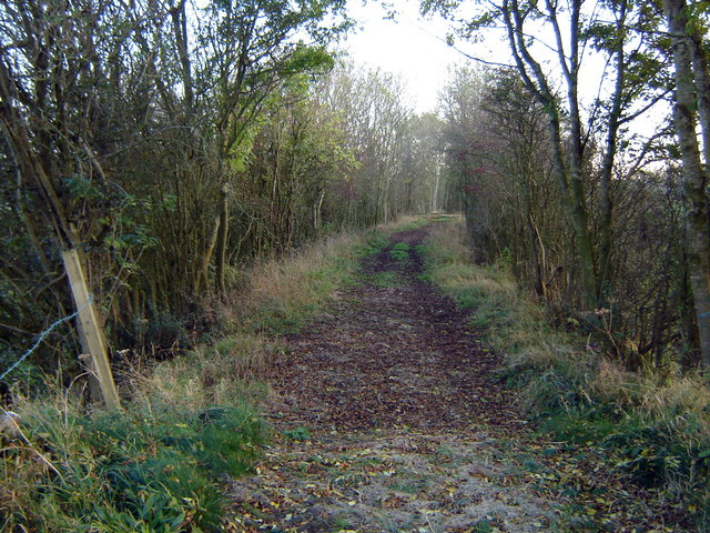 Disused Whithorn Railway Line A view of the disused railway line from just passed the old Millisle station. The line ran to and terminated at Whithorn. The old railway is now a walkable path.